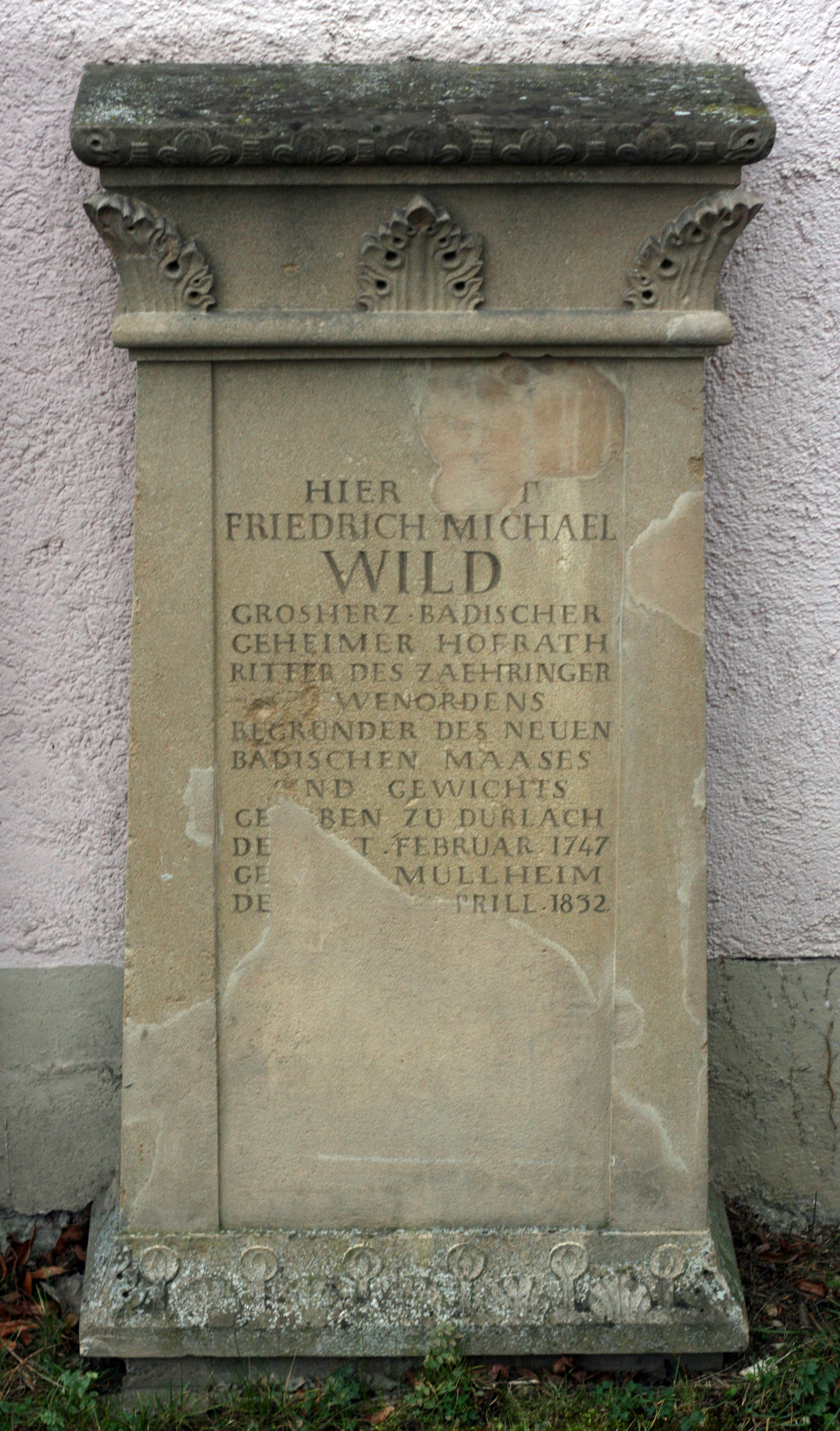 Headstone of Friedrich Michael Wild on the side of St. Margareth chapel in Müllheim